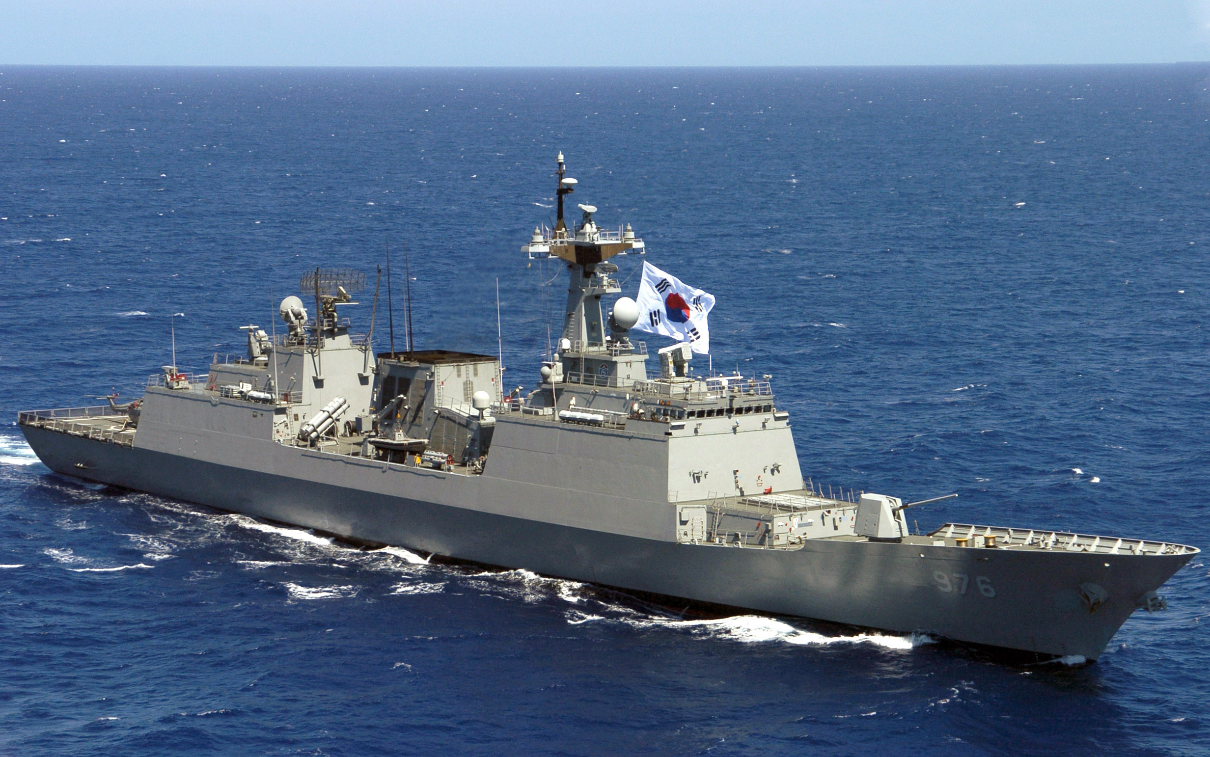 060725-N-8629M-216 Pacific Ocean, Hawaii (July 25, 2006) – A Korean Ship sails in formation at the end of Exercise Rim of the Pacific (RIMPAC) 2006, where 28 ships and six submarines from the participating nations come together in a group formation. Eight nations are participating in RIMPAC, the world's largest biennial maritime exercise. Conducted in the waters off Hawaii, RIMPAC brings together military forces from Australia, Canada, Chile, Peru, Japan, the Republic of Korea, the United Kingdom and the United States. U.S. Navy photo by Mass Communication Specialist 2nd Class Rebecca J. Moat (RELEASED)